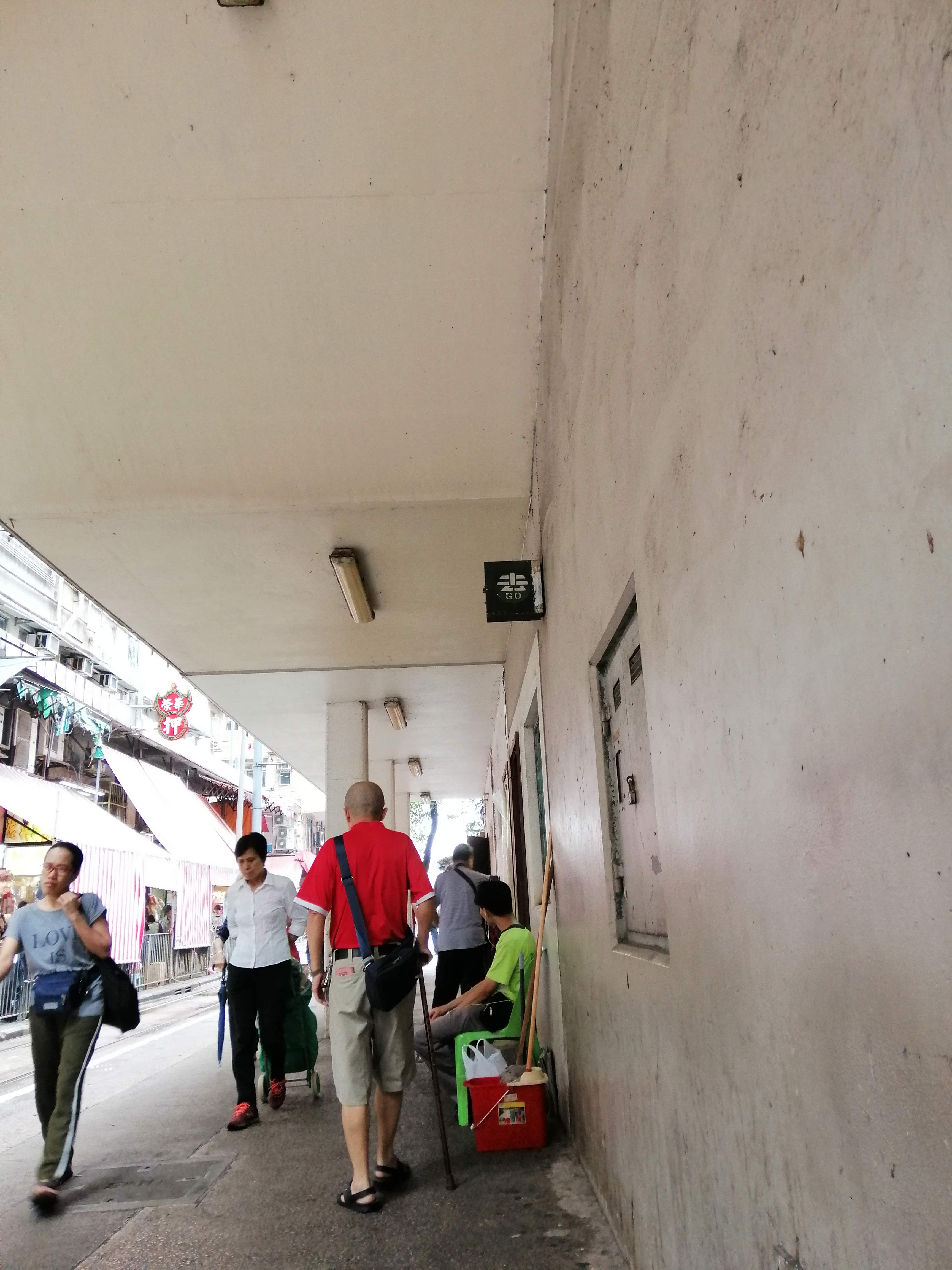 Scenery of Hong Kong Island